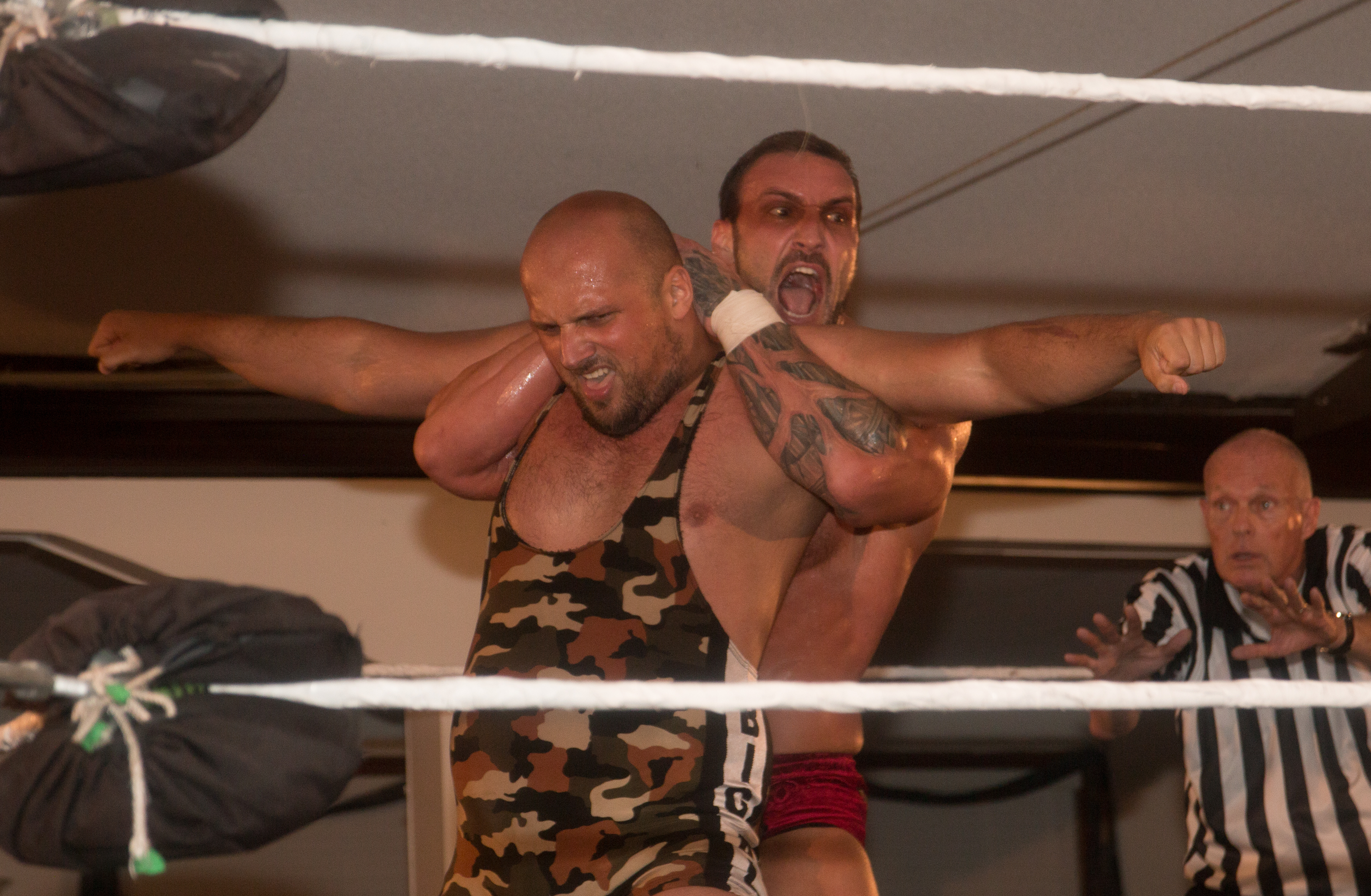 Chris Masters applying his Master-lock (aka a full nelson) on Joey Allen at a PWA show in Kitchener, ON